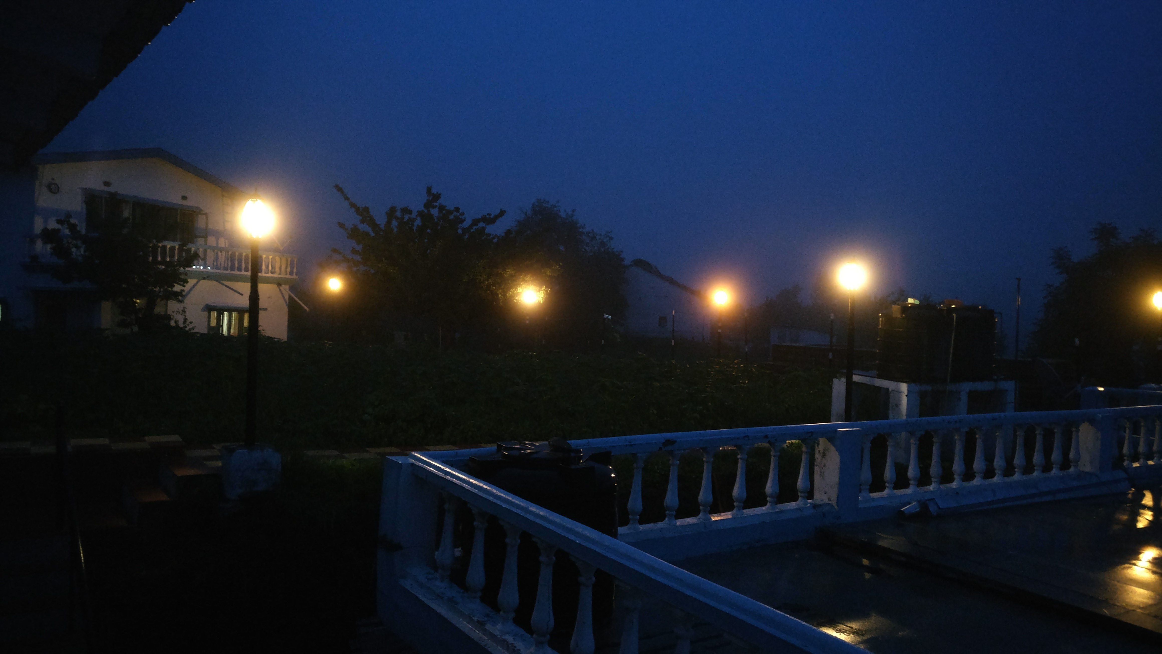 Lights & Peace